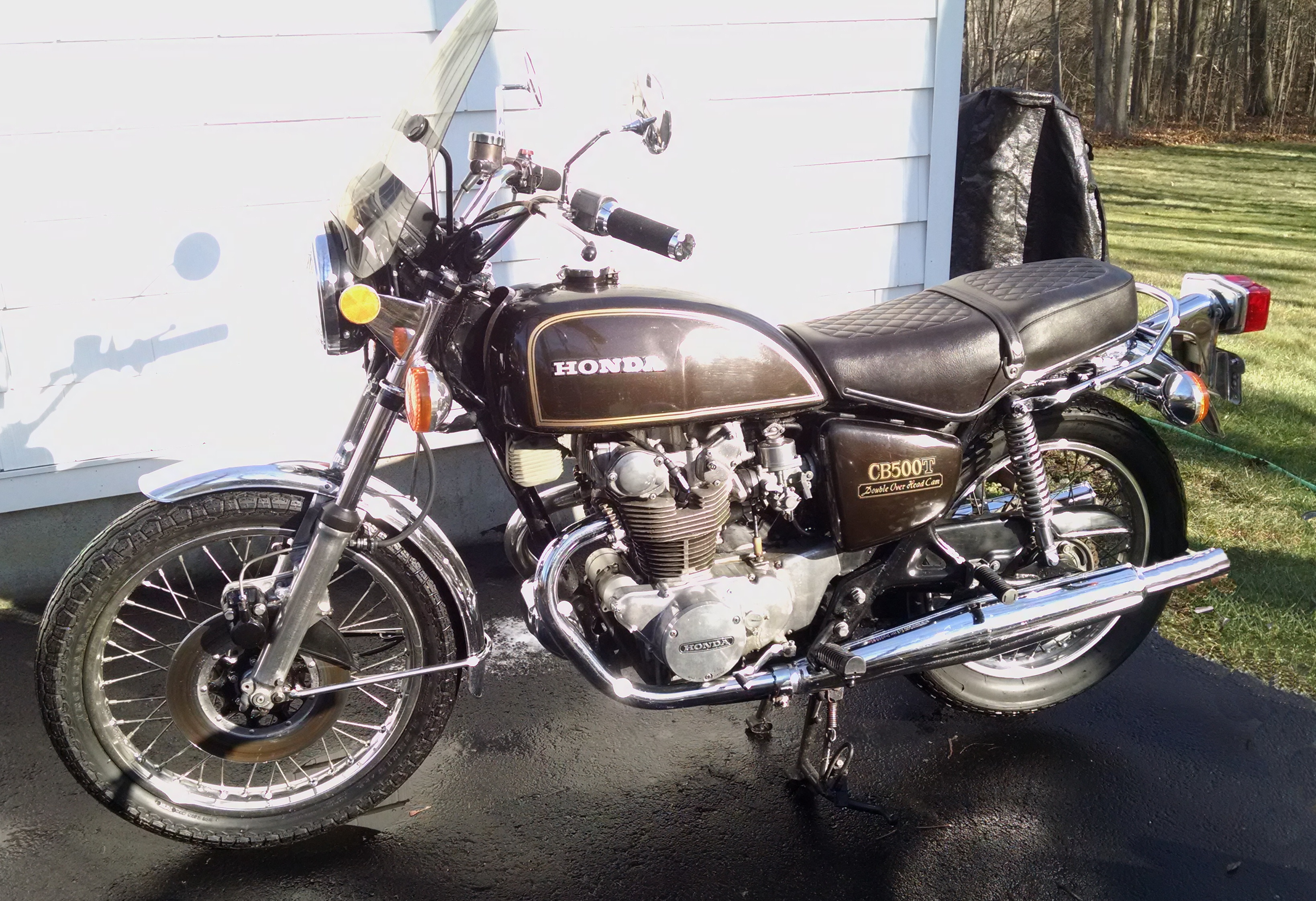 Unaltered factory version